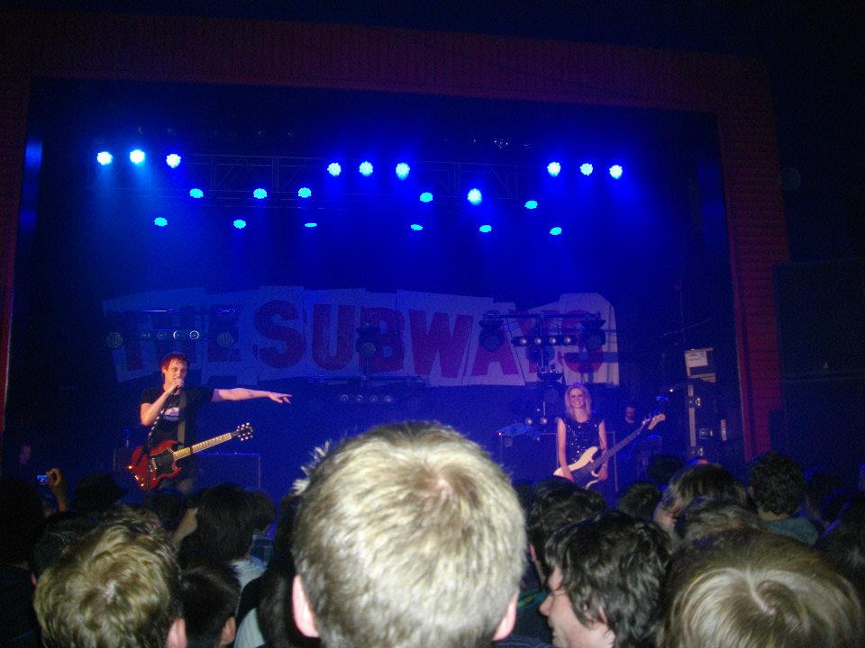 Photo of The Subways, an English rock band, at a show in Manchester, 2011.